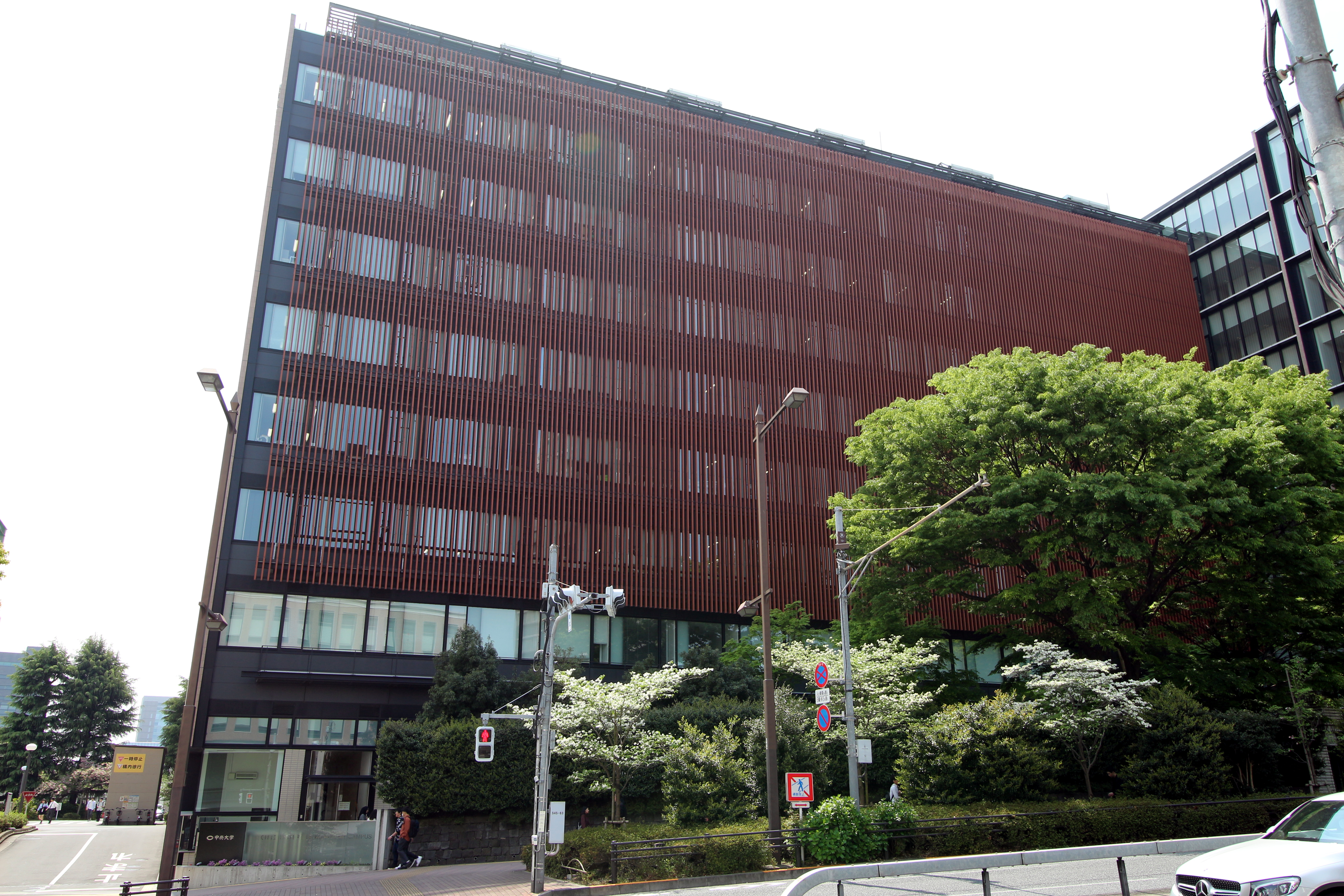 Chuo University High School in Bunkyo-ku, Tokyo.